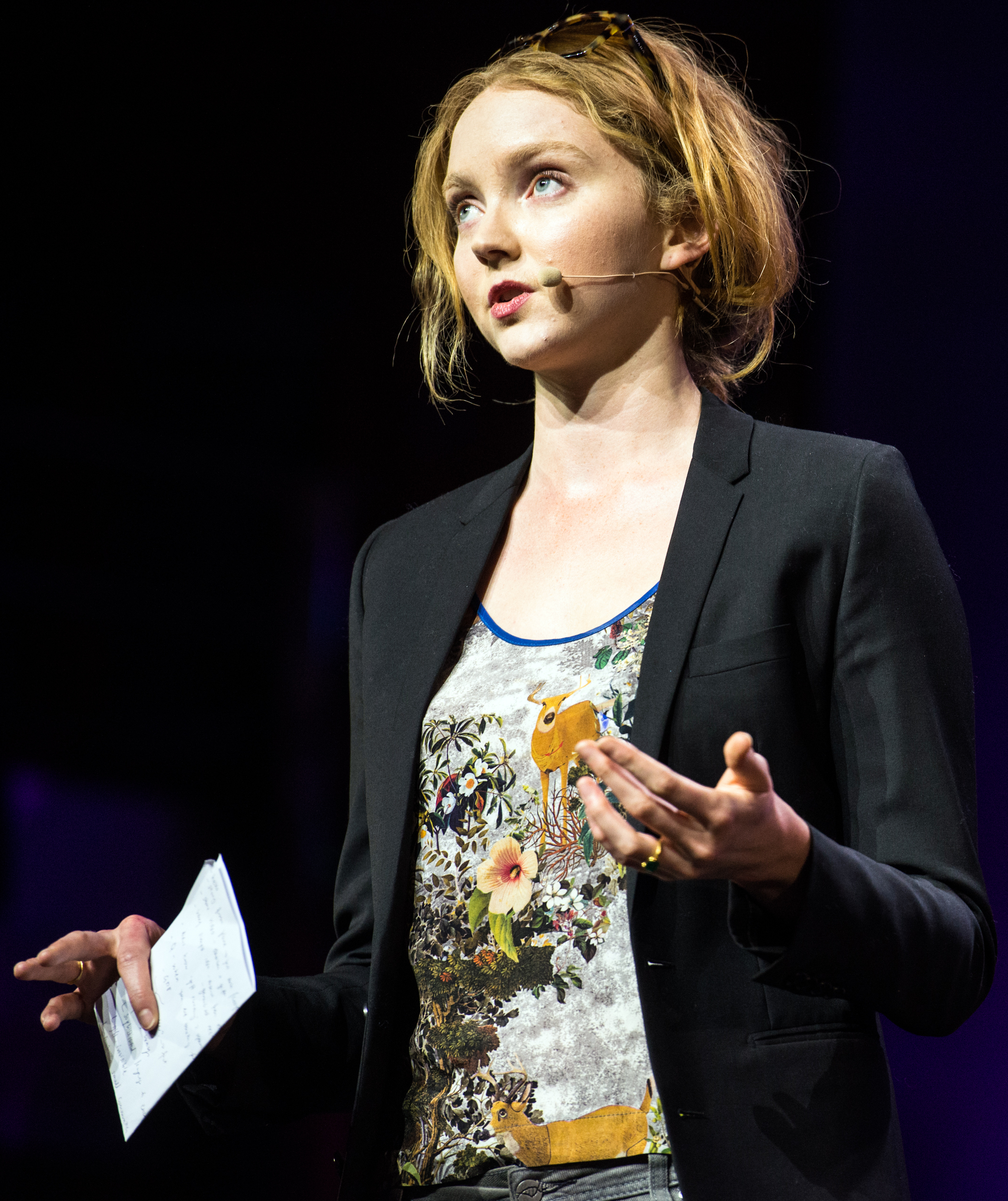 Photos by @Kmeron for LeWeb13 Conference @ Central Hall Westminster - London